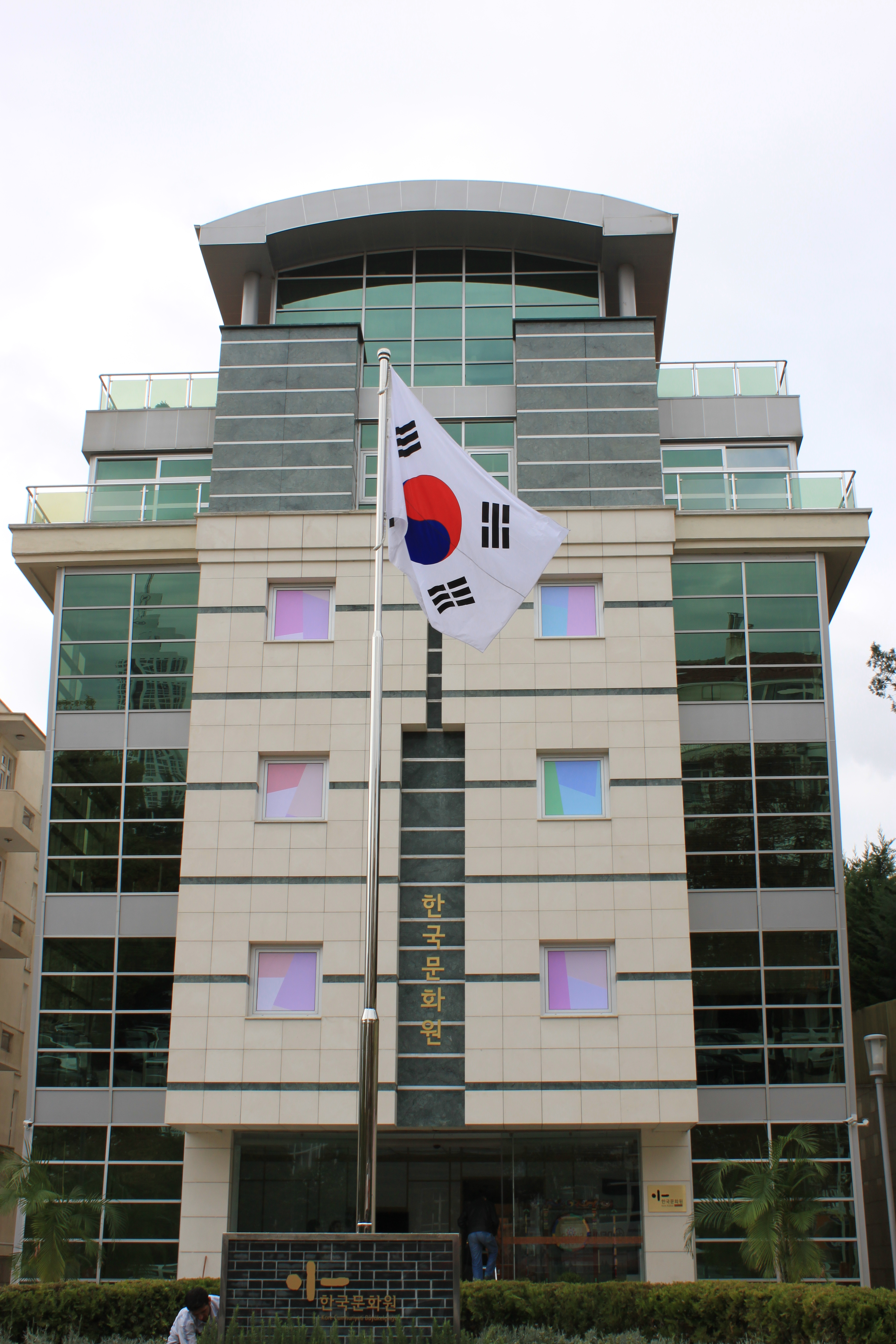 The first Korean Cultural Center in Turkey opened its doors in Ankara on October 13. Located in the hea...rt of the capital, the newly opened Korean Cultural Center will provide information services and support for those interested in learning more about Korea, holding diverse facilities from an indoor training room for Taekwondo to a cutting-edge multimedia lounge. Its exhibition halls and multi-purpose auditorium will host a variety of cultural events, including a K-pop contest slated for November 26, art showcases, as well as Korean film screenings. The cultural center will also run a buddy program, providing social and cultural events for Korean exchange students who are interested in meeting local friends.